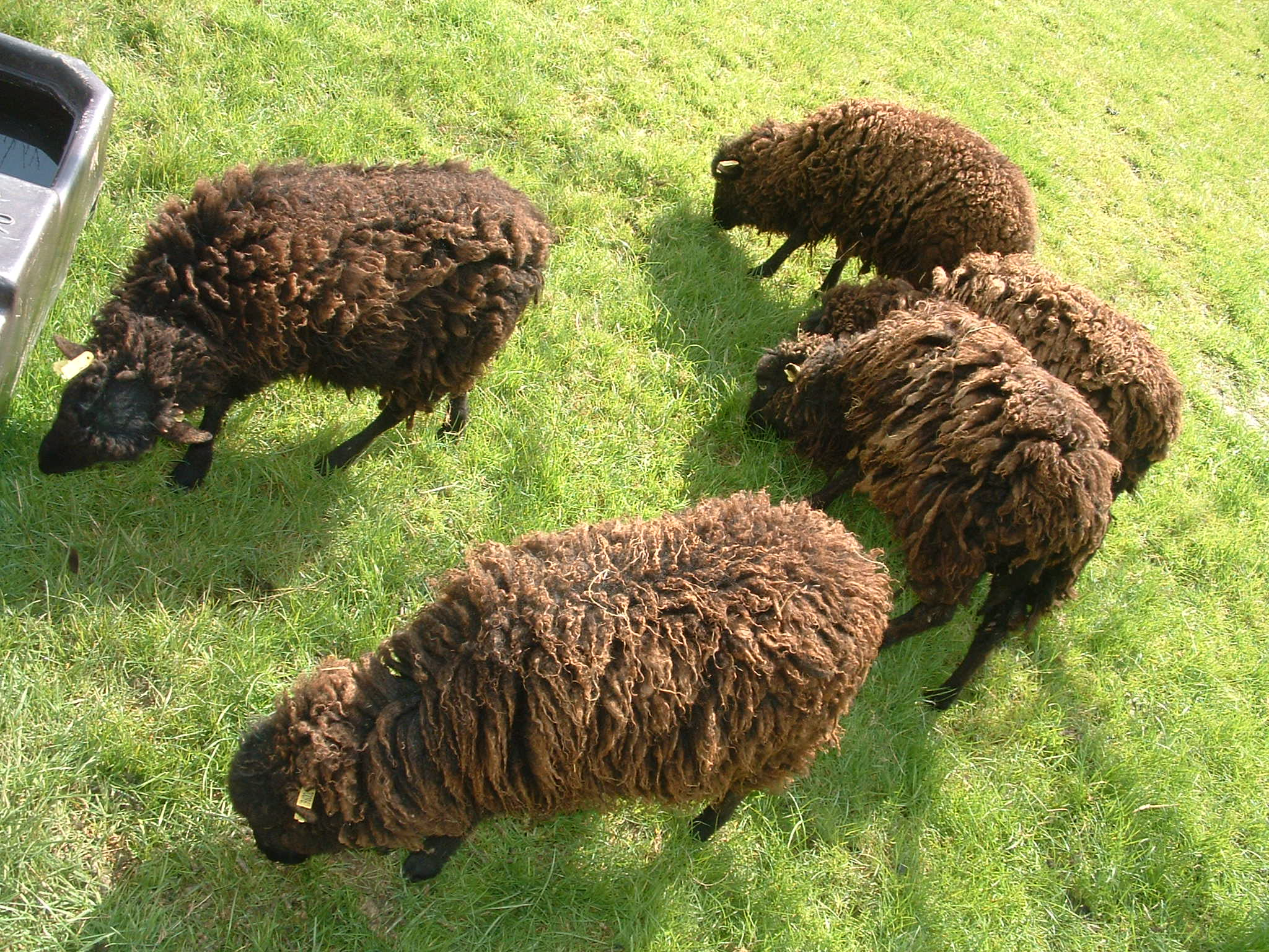 Ouessant sheeps